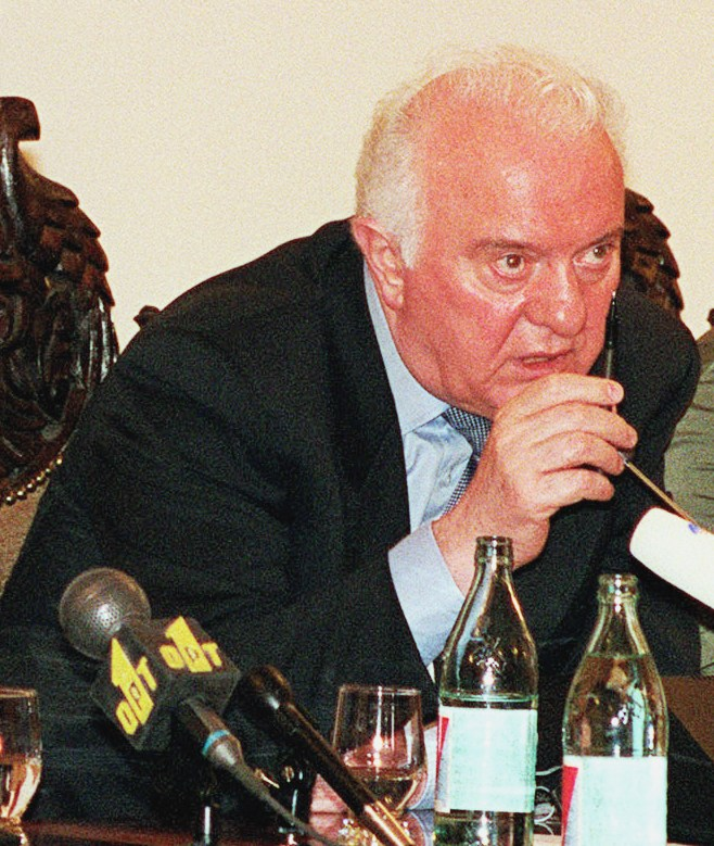 Secretary of Defense William S. Cohen (left) and Georgian President Eduard Shevardnadze (center) conduct a joint press briefing as Minister of Defense David Tevzadze (right) listens at Krtsanisi, the presidential compound near Tbilisi, Georgia, on Aug. 1, 1999.